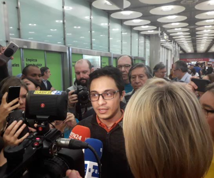 Lorent Saleh llegando al Aeropuerto de Barajas en Madrid